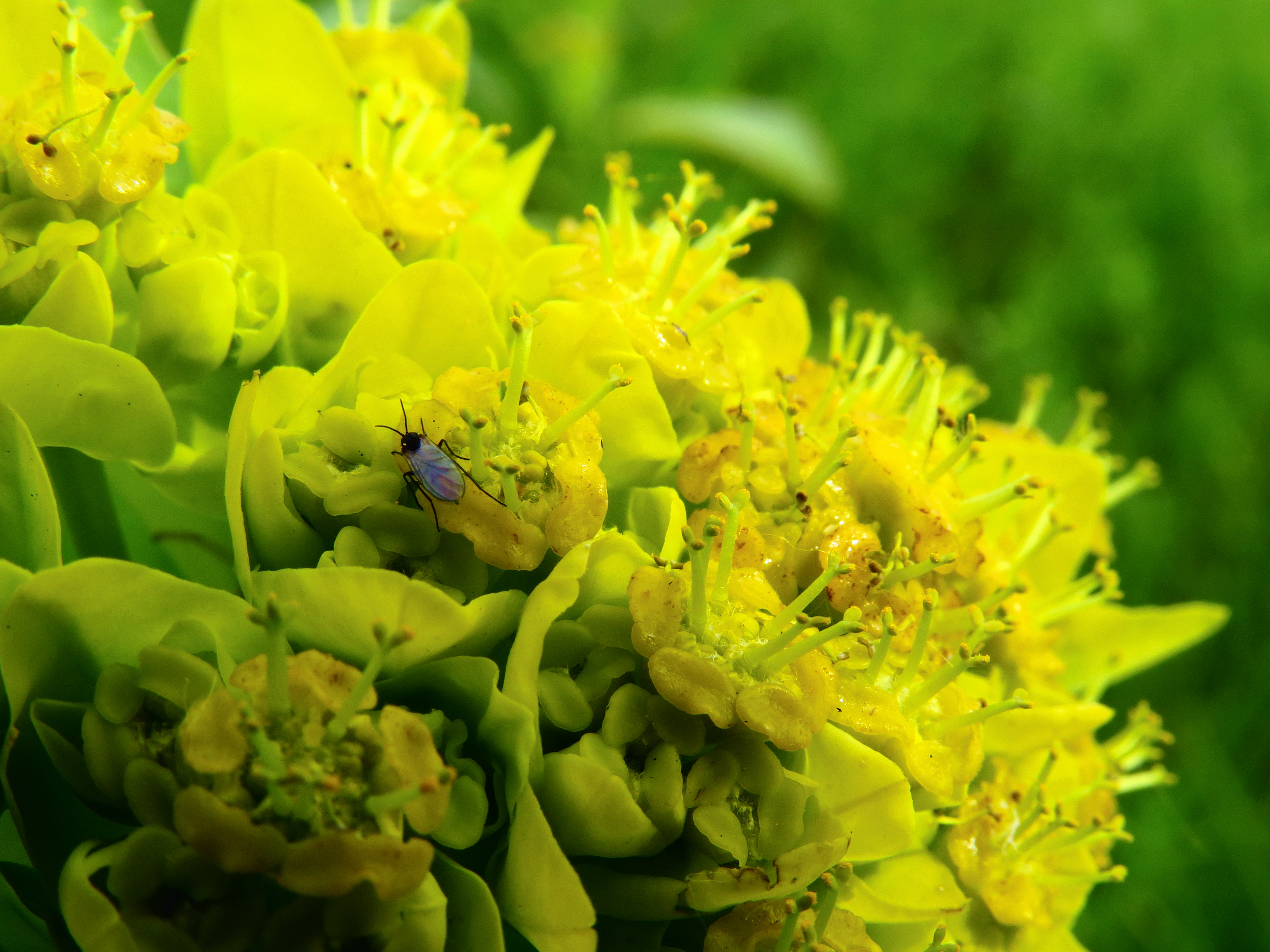 Euphorbia palustris near Zazymya, Brovary raion, Kiev oblast, Ukraine